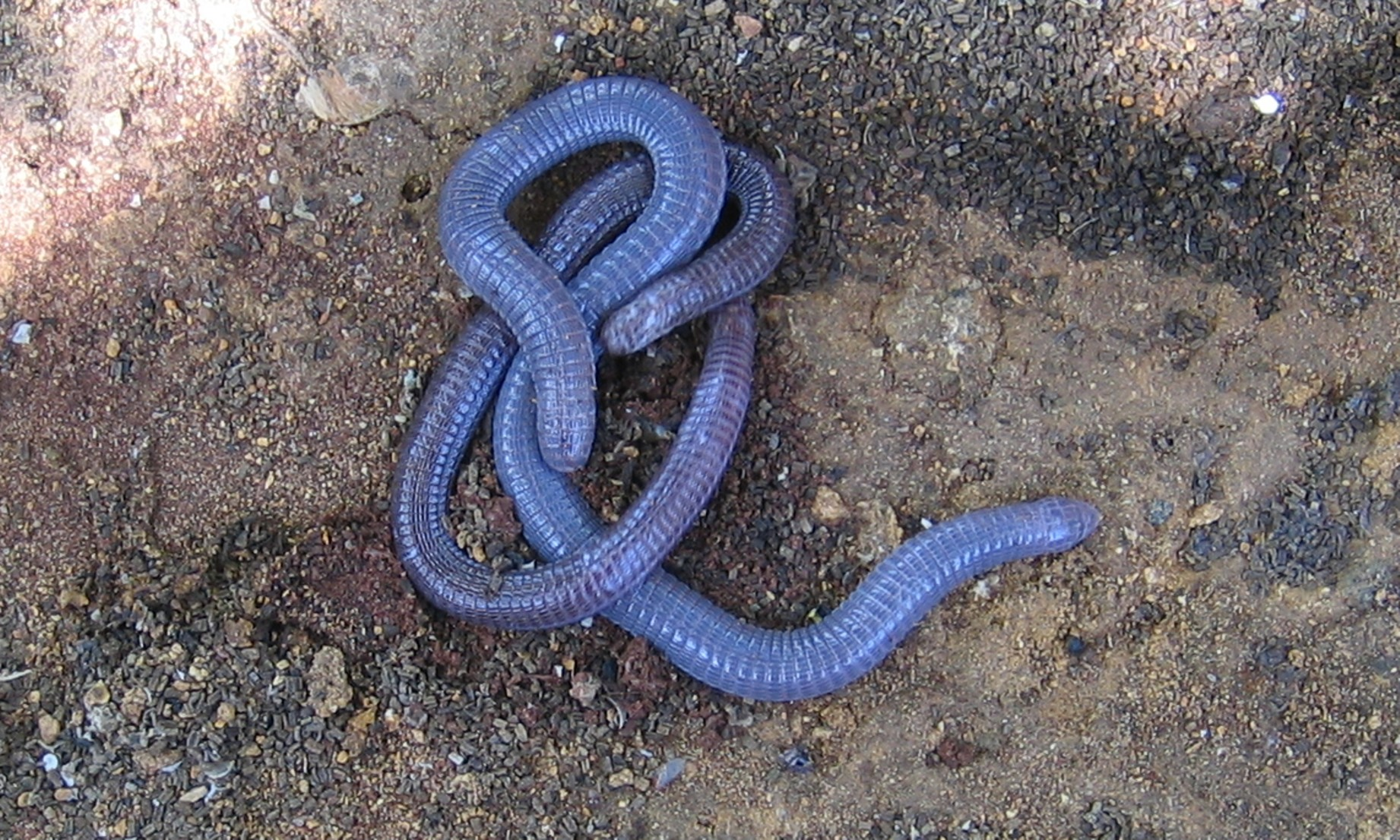 Image of two Iberian worm lizards (Blanus cinereus) in a garden near Seville, Spain.